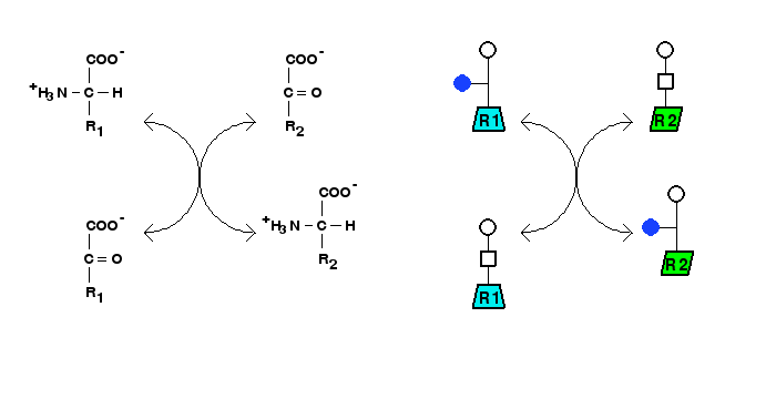 Squeme of transamination in Fischer projections and polygonal representations.